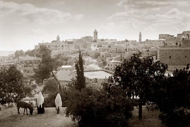 ‘(…) Bethlehem. The picture shows a man and a woman approaching Bethlehem with a donkey. It was taken on Christmas Day, 1898. The photograph presents a scene reminiscent of Mary and Joseph, as they approached Bethlehem some 1900 years earlier.’ (text from Note: As the source shows a number of 1898 pictures ‘reminiscent’ of the biblical story in and around Bethlehem (featuring a couple, a donkey, sometimes a baby etc.) it seems likely that at least some of the pictures were staged.